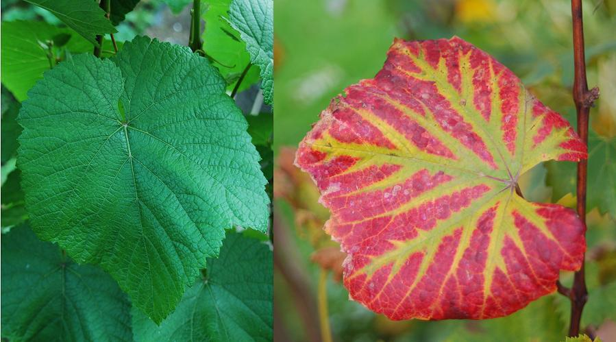 Examples of the leaf of a Rondo grape (Vitis vinifera) in summer and autumn.